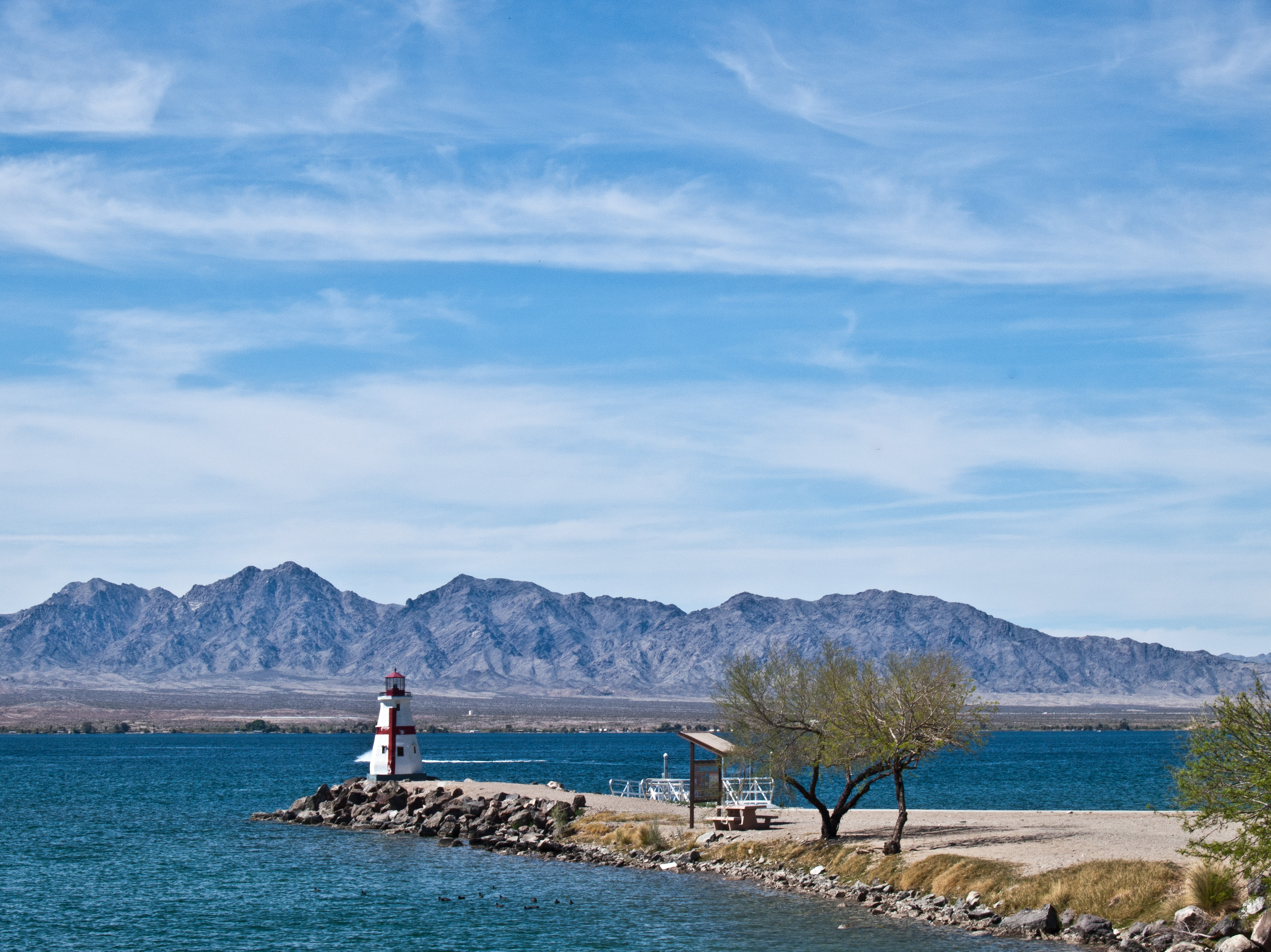 Windsor Beach Lighthouse from the boat to the Casino